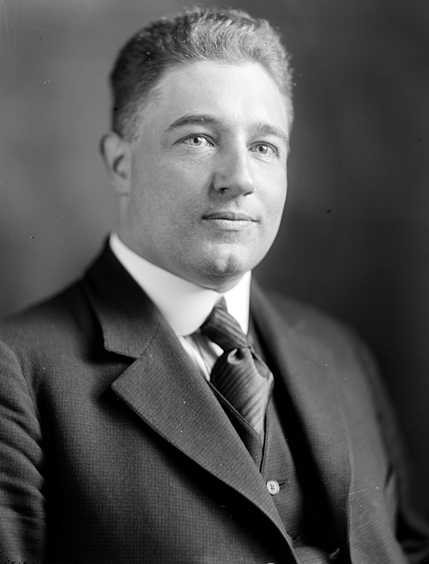 Hubert Fisher, US Representative from Tennessee